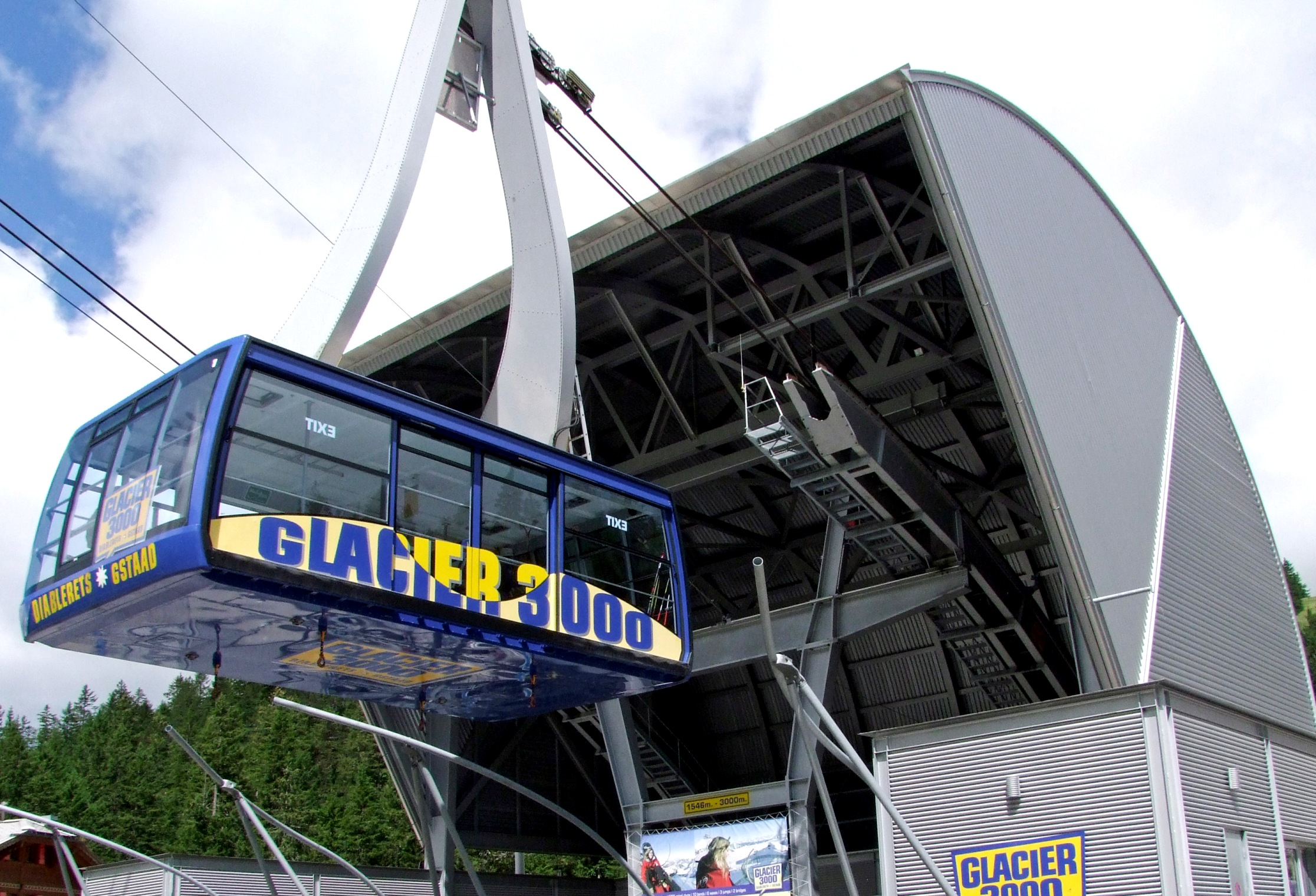 Glacier 3000 valley station, Col du Pillon